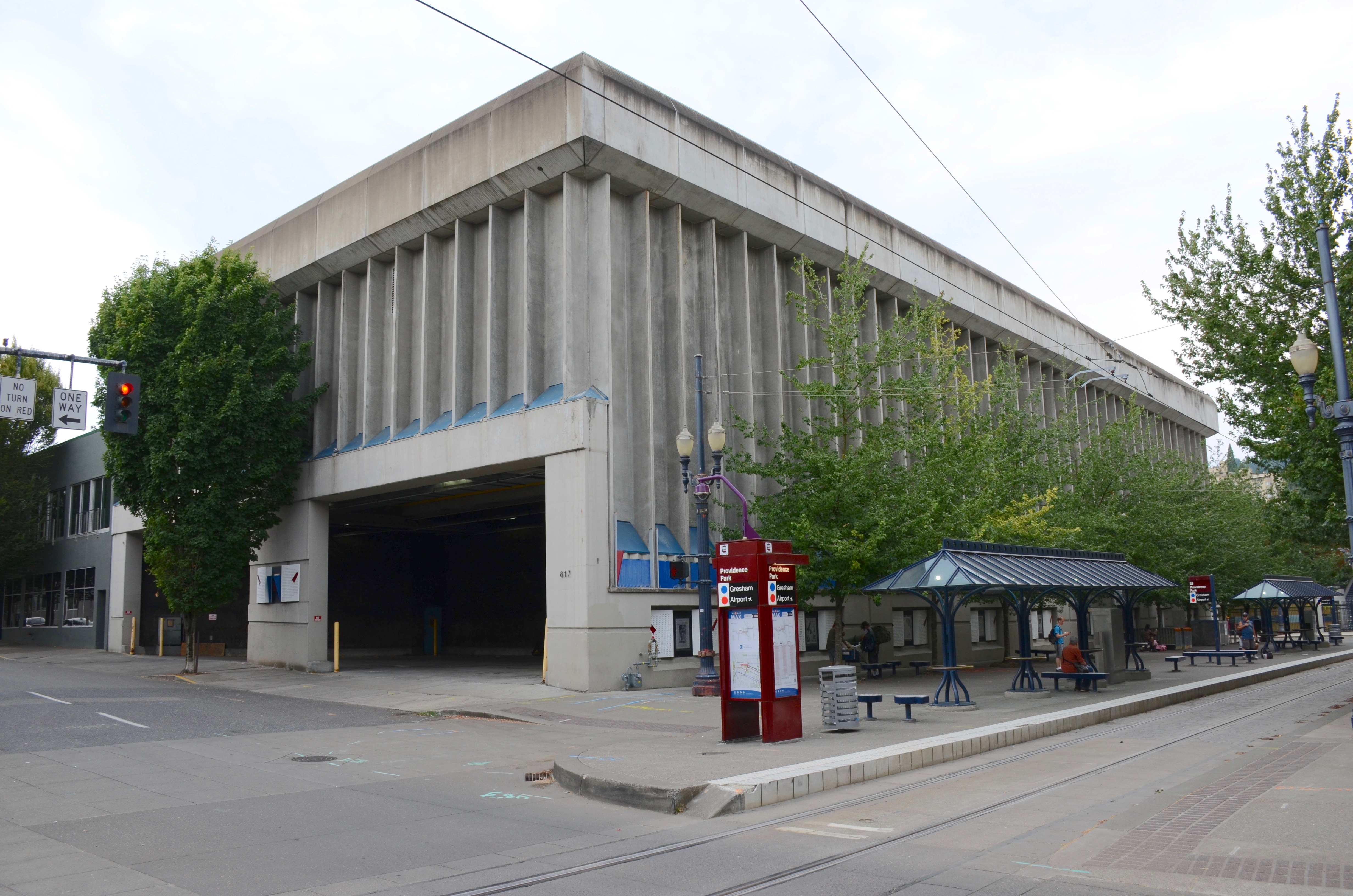 The westernmost building of a complex of buildings that comprised the printing plant of The Oregonian, in Portland, Oregon. This specific building, on Southwest Yamhill Street between 17th & 18th Avenues, and seen here from across 17th & Yamhill, was used as a warehouse for housing rolls of newsprint. At the time of the photo, in early August 2015, printing plant had either recently closed permanently, or was in the process of closing permanently, the newspaper's owner having recently outsourced its printing. In the foreground, on Yamhill Street, is the eastbound platform of TriMet's Providence Park MAX station, which opened in 1997 as Civic Stadium station and has carried two other names, when the stadium after which it is named has carried other names (PGE Park, then Jeld-Wen Field).